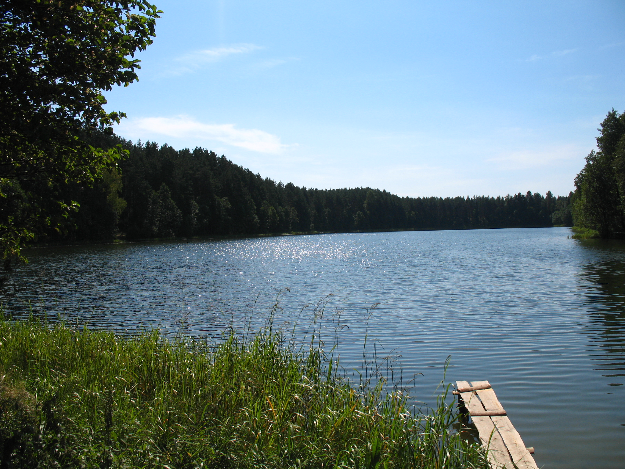 Lake Seliger, Tver region, Russia.